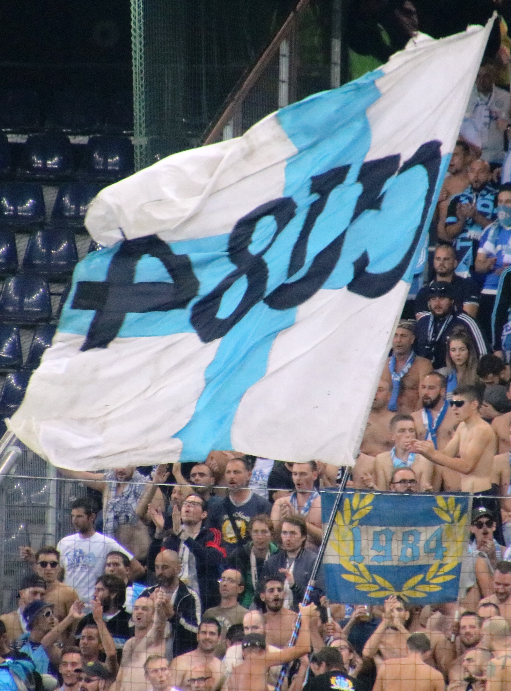 UEFA Euroleage group stage 2nd round